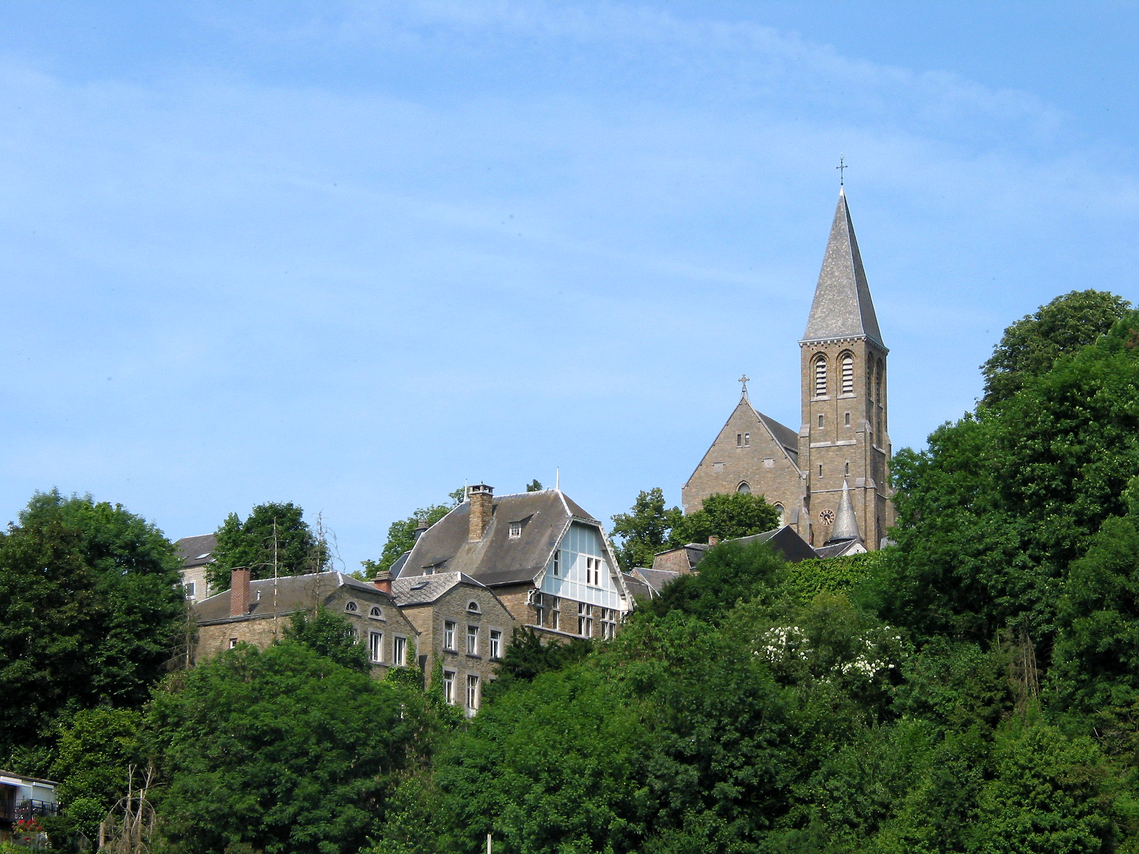 Esneux, the Saint Hubert church. Walon: Èsneu, l’èglîje Sint-Hubêrt.